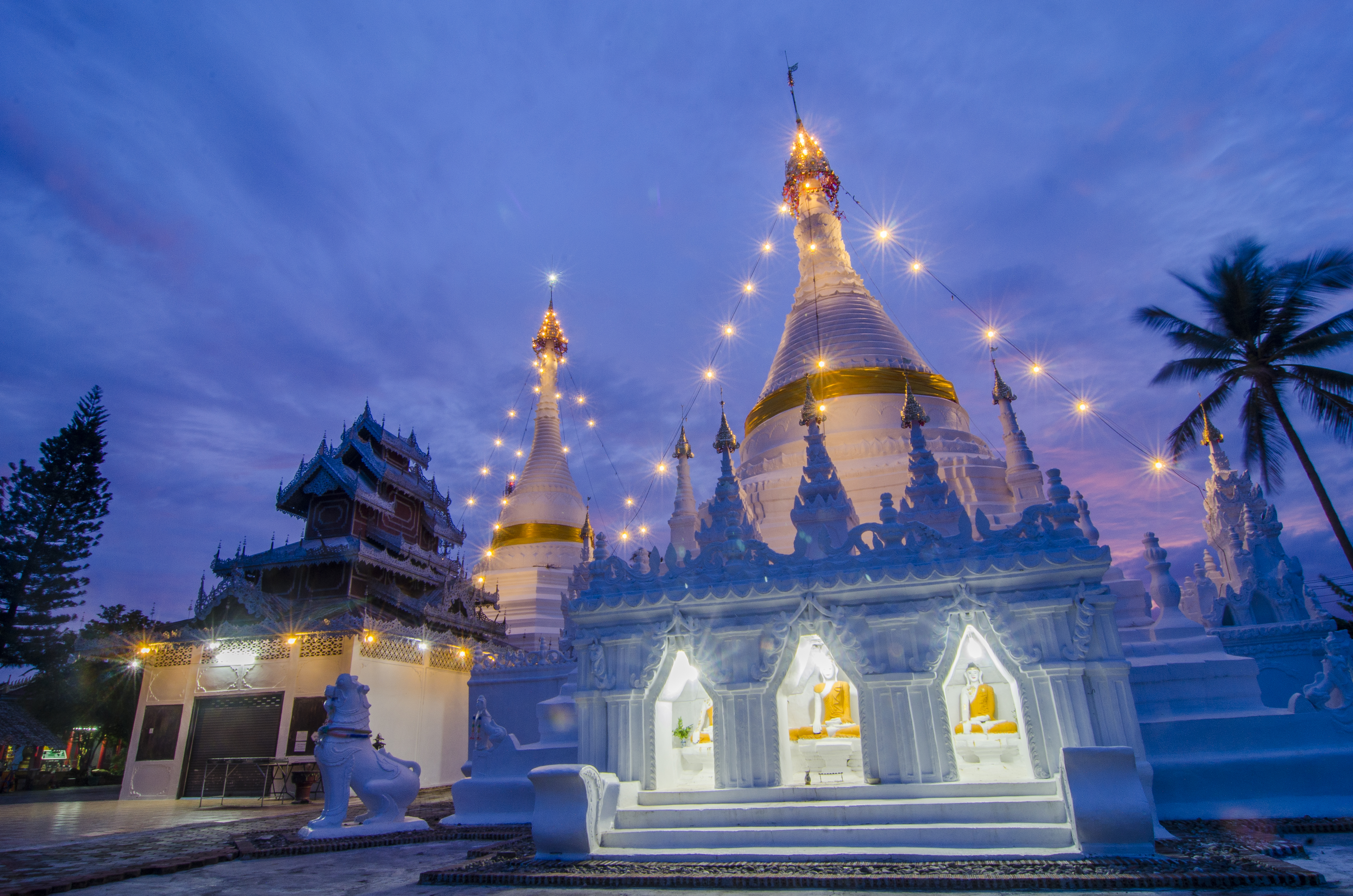 Wat Phrathat Doi Kongmu, Mueang Mae Hong Son